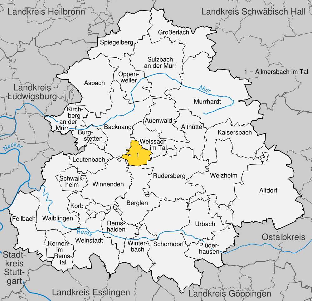 position of Allmersbach im Tal within the Rems-Murr-Kreis, Baden-Württemberg, Germany